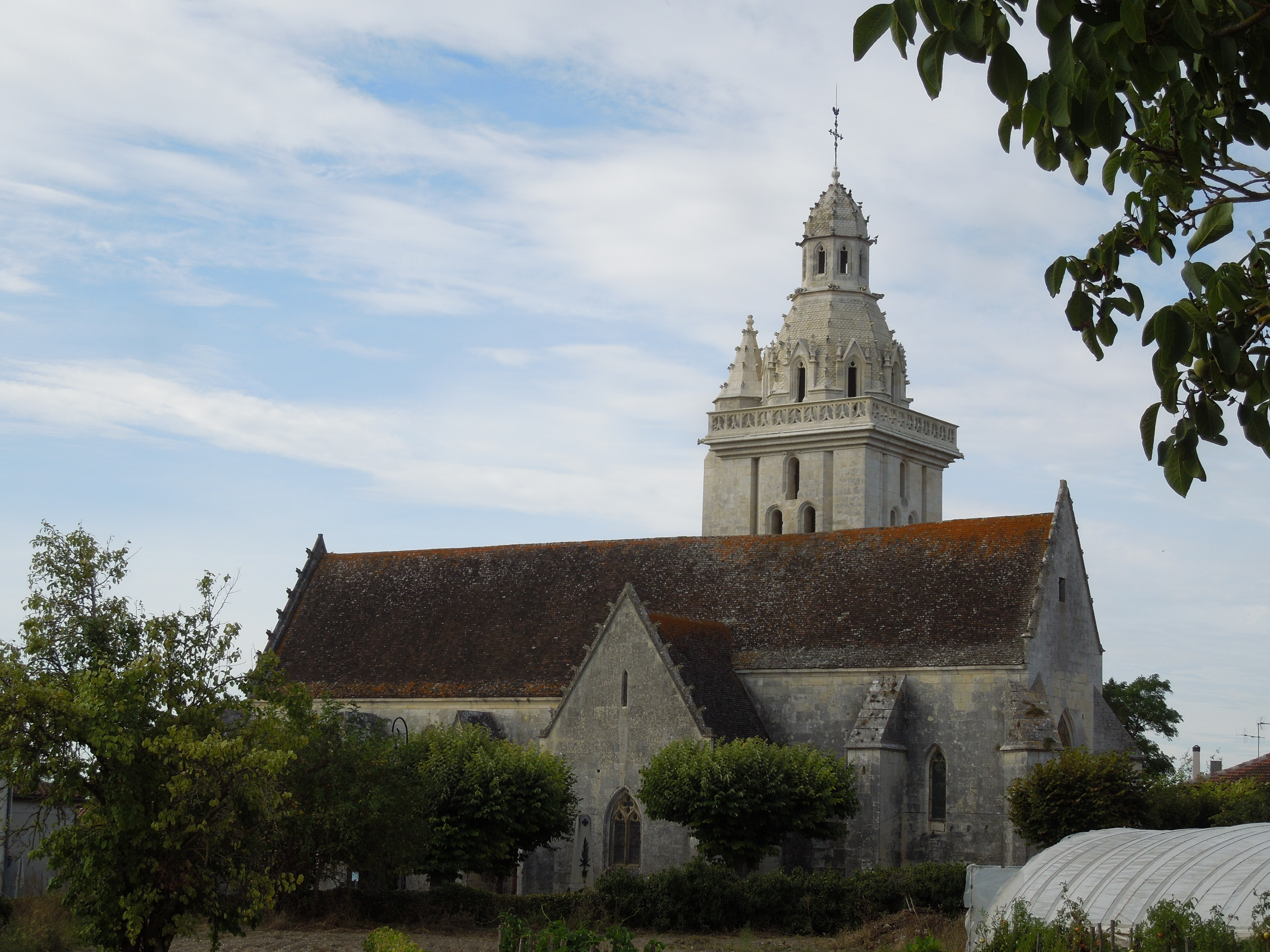 Fléac-sur-Seugne, the village church Saint-Pierre